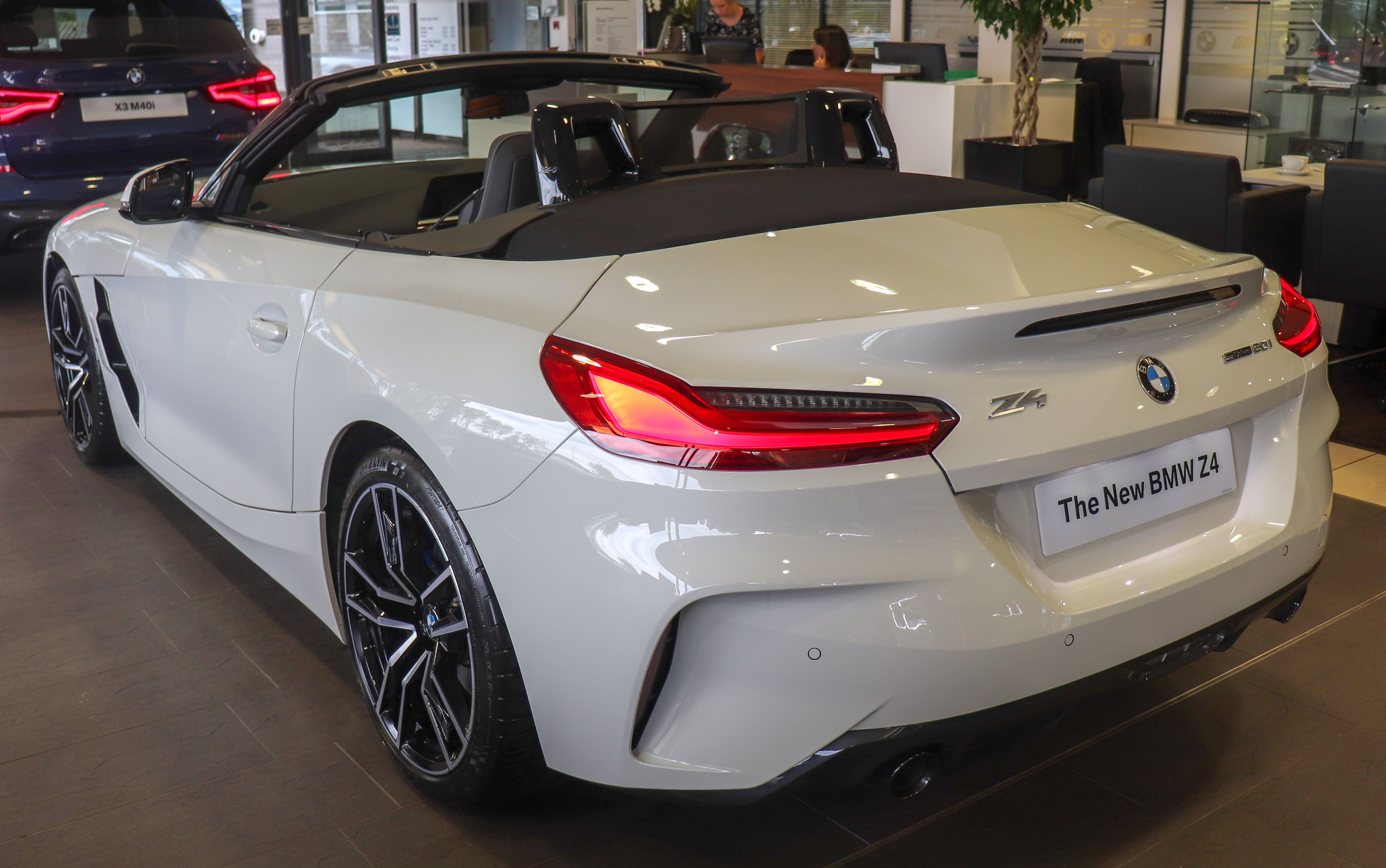 2019 BMW Z4 sDrive20i M Sport 2.0 Rear Taken in Leamington Spa